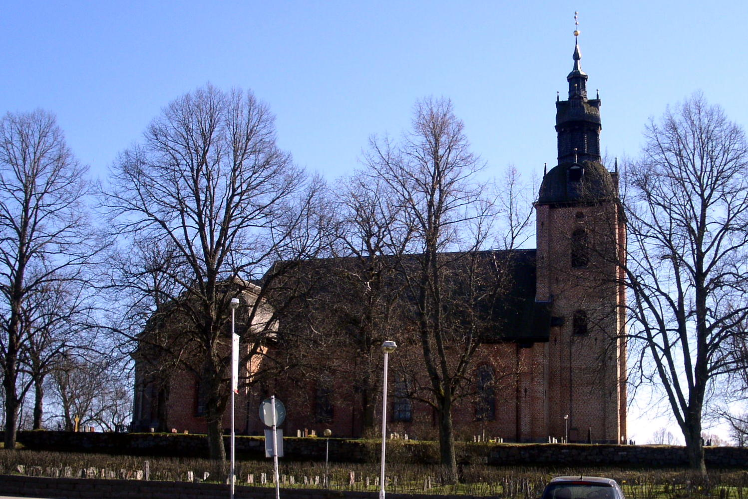 Askersunds rural church